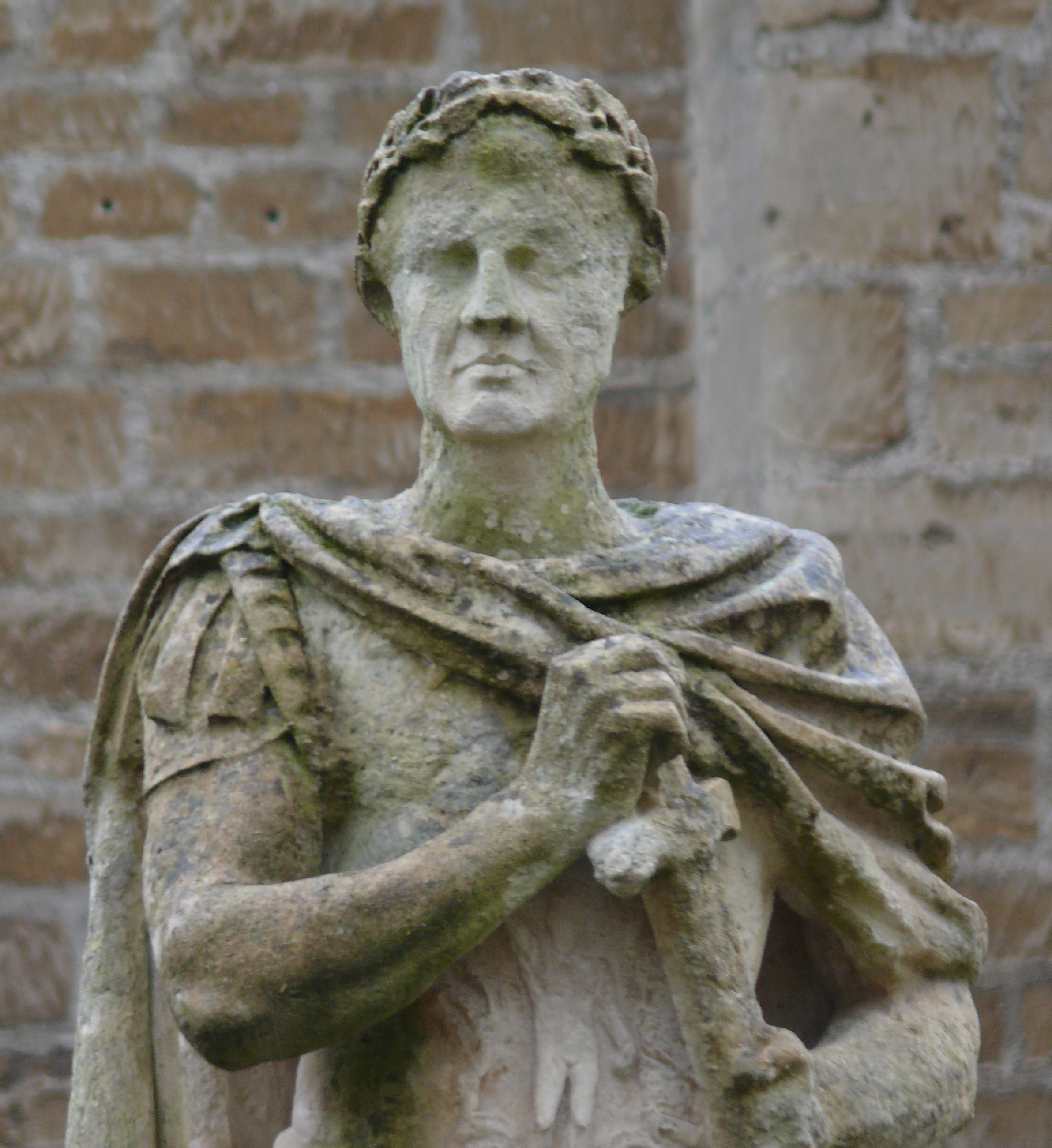 Statue of Emperor Vespasian on the terrace of the Roman Baths (Bath). The Terrace is lined with statues of Roman Governors of Britain, Roman Emperors and military leaders. The statues date to 1894.